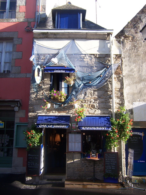 House in the old Ville Close of Concarneau